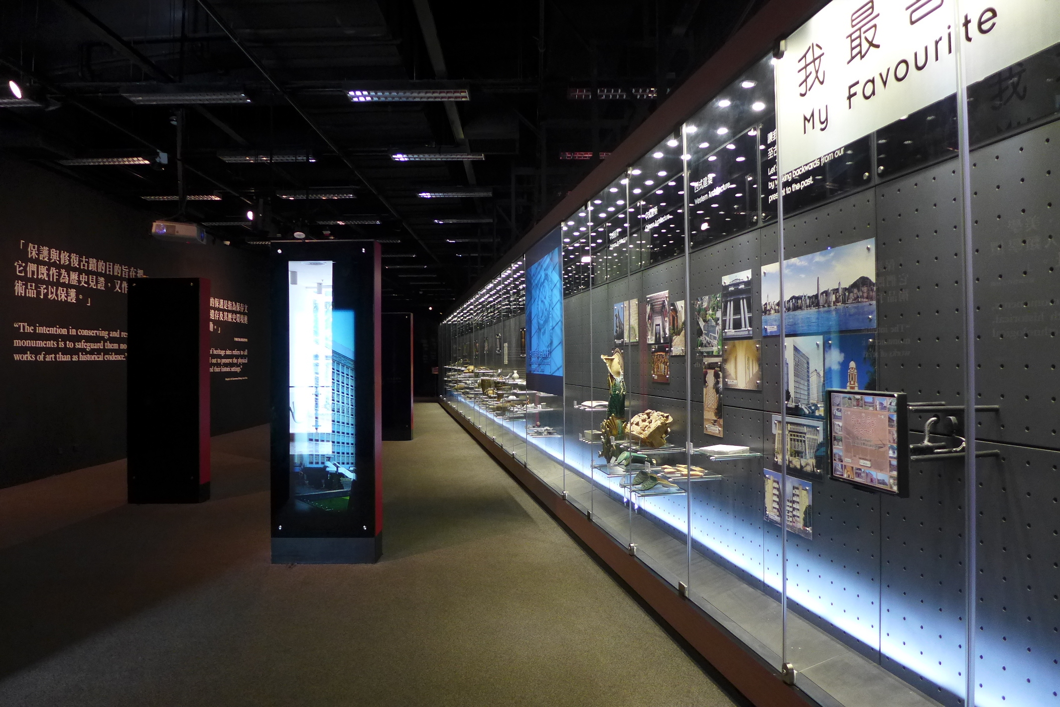 HK Heritage Discovery Centre Archaeology Section Heritage Wall